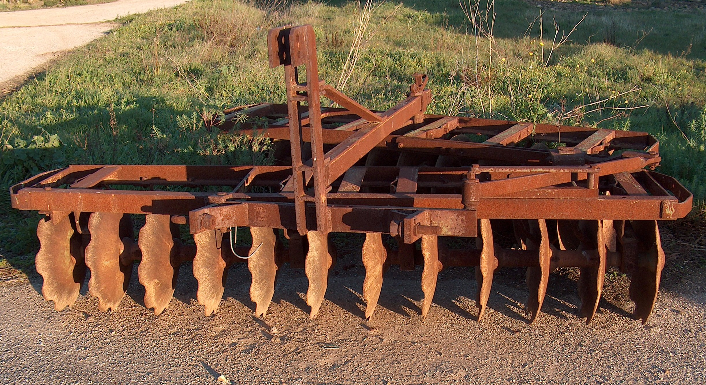 Disk harrow – Vocational Institute of Agriculture and Environment "Cettolini" of Cagliari (Sardinia, Italy); Place: Associated School of Villacidro (Sardinia, Italy)